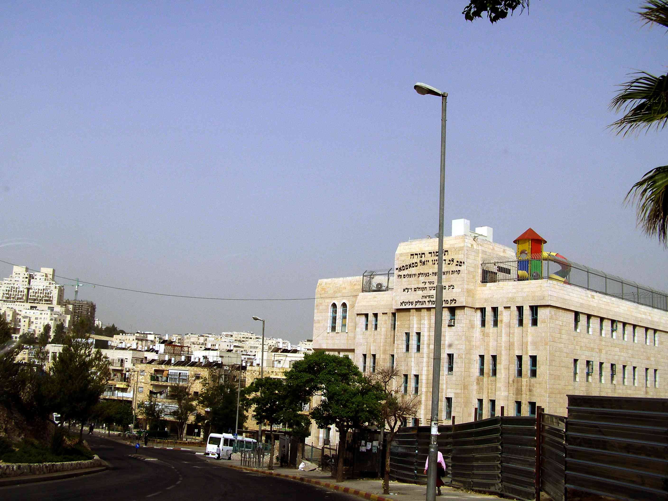 Neighbourhood of Jerusalem